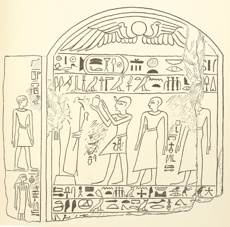 Drawing of a limestone stele depicting the pharaoh (the man with raised arms) Sekhemre-wahkhaw (Rahotep), offering to Osiris for two deceased, an officer and a priest (behind the pharaoh). The stela is dated to Year 1 of Rahotep, early 17th dynasty, Second intermediate period. British Museum 283 (registr. no. 833).